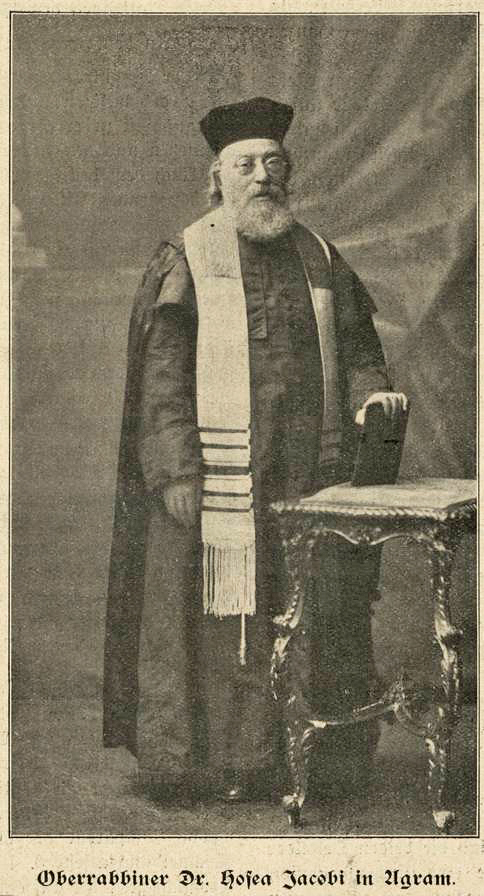 Picture of Hosea Jacobi